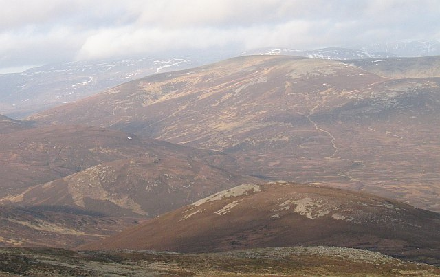 An Sgarsoch View across the Tarf towards An Sgarsoch, a notoriously remote hill. At 1006m asl it is dwarfed by Braigh Riabhach and Carn an t-Sabhail beyond.